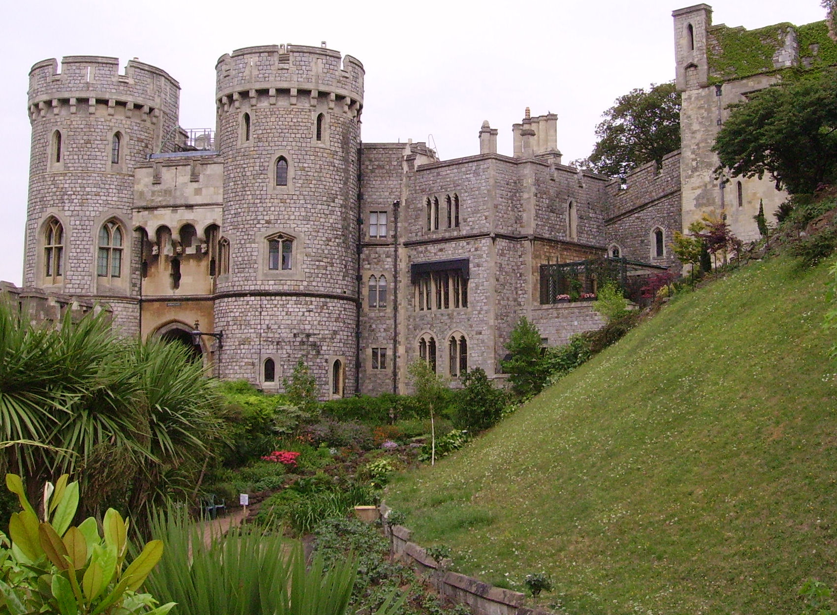 Windsor Castle in Windsor, United Kingdom